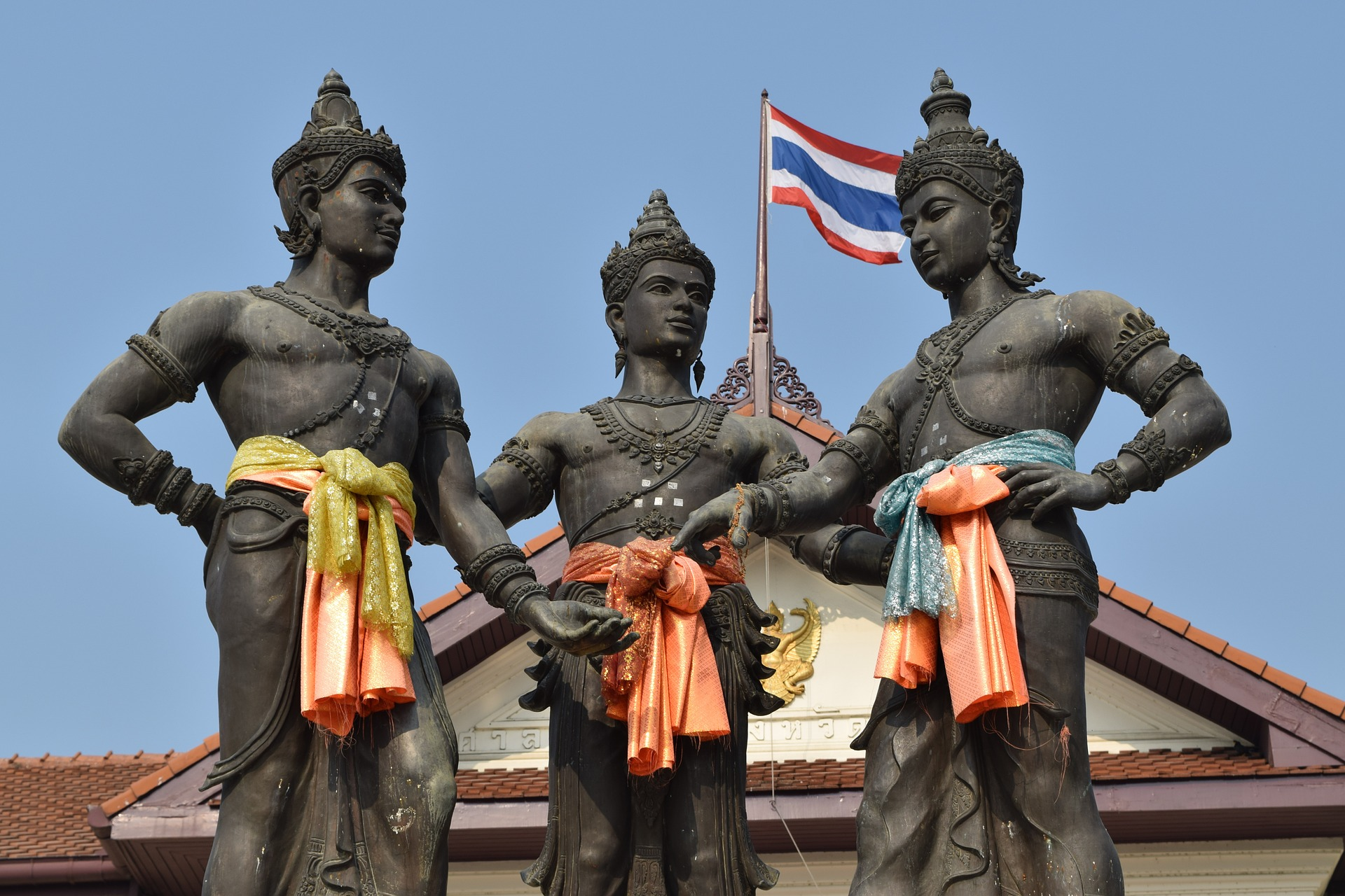 Three Kings Monument, Chiang Mai